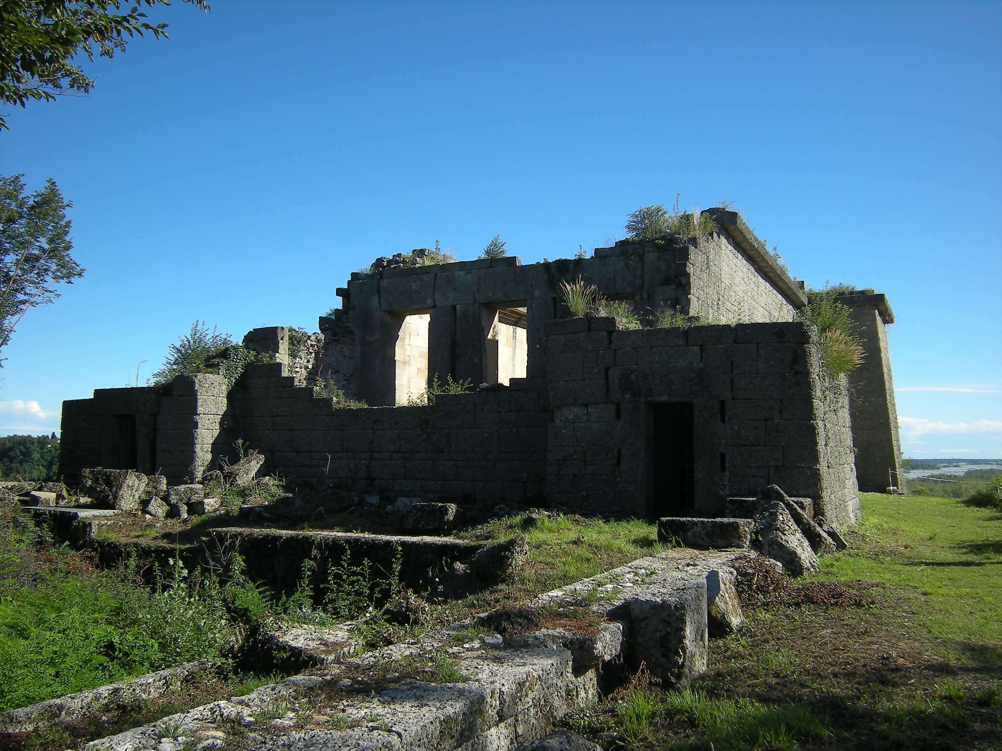 The Charnel house of Pinzano